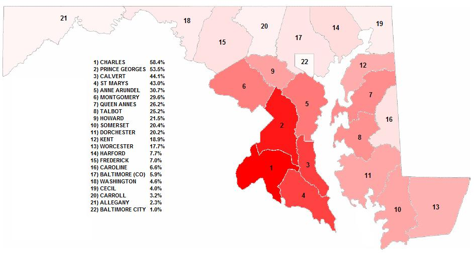 Maryland Slave Population, as a percentage of the total population in each county, at the time of the Civil War.